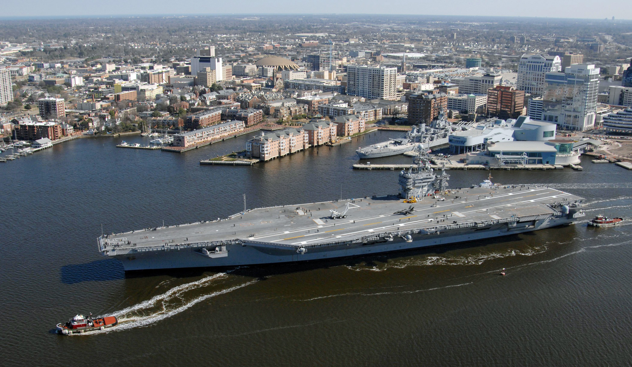 NORFOLK (Feb. 13, 2009) The Nimitz-class aircraft carrier USS Harry S. Truman (CVN 75) transits up the Elizabeth River as it passes the downtown Norfolk waterfront after completing a successful and on-time six-month Planned Incremental Availability at the Norfolk Naval Shipyard in Portsmouth, VA. (U.S. Navy photo by Mass Communication Specialist 3rd Class Tyler Folnsbee/Released)